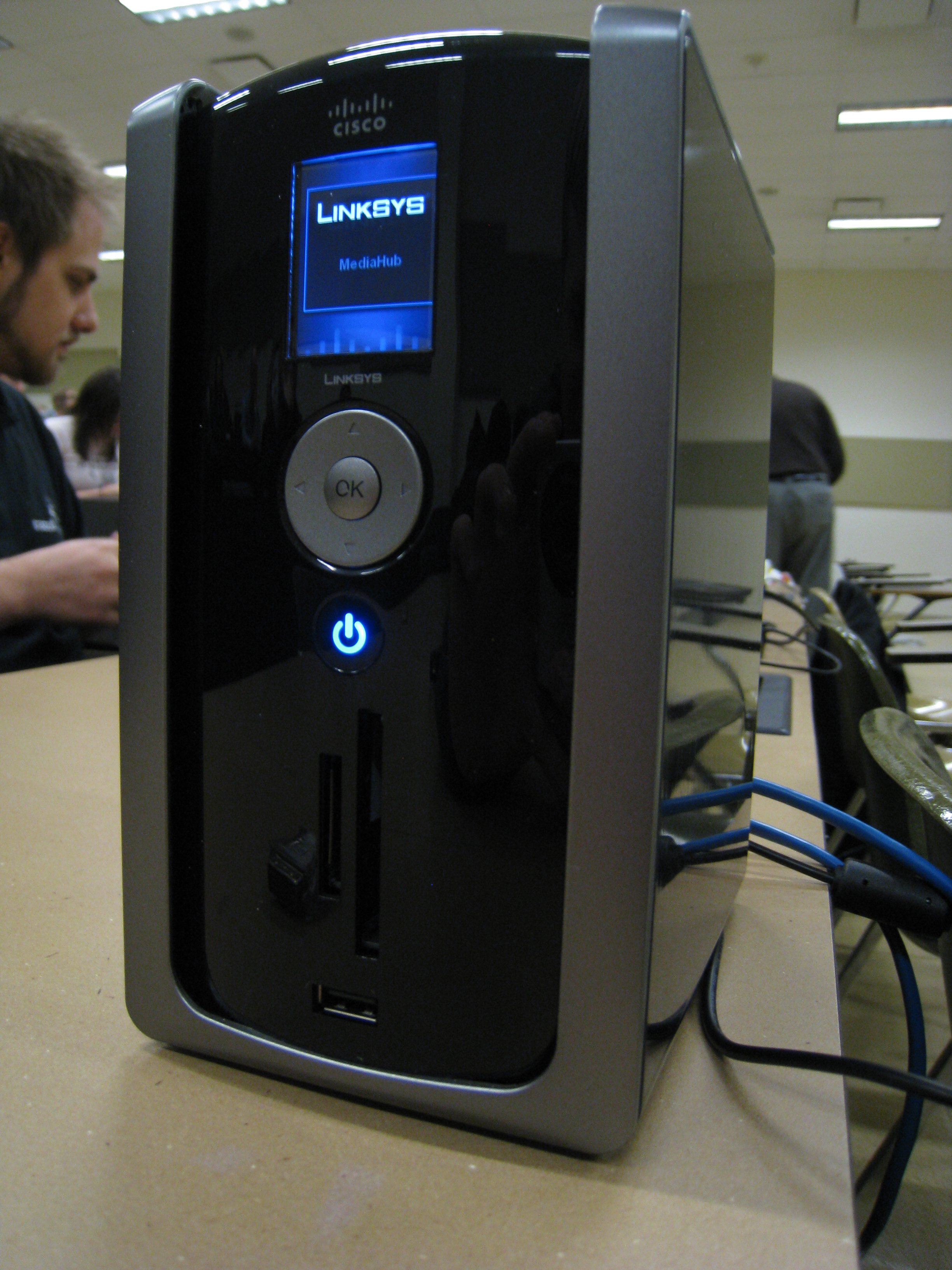 The Linksys by Cisco Network Media Hub 400 Series